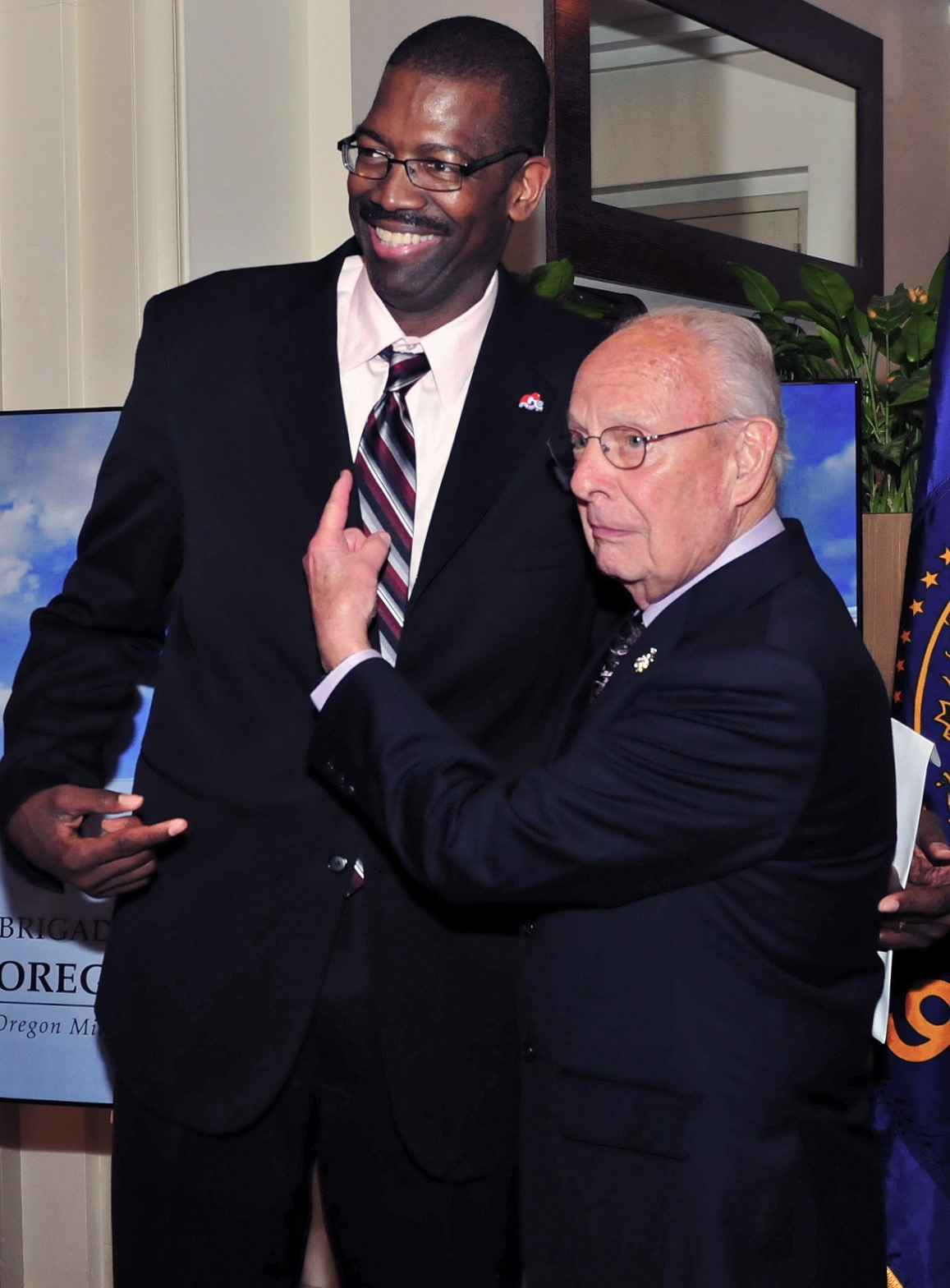 Bill Schonely, the former voice of the Portland Trail Blazers, jokes with former Trail Blazer Michael "Harps" Harper at the 2013 All-Star Salute to the Oregon Military, held at the Governor Hotel in Portland, Ore., April 20. The event was part of a two-year, $6.5 million capital campaign fundraiser for the Oregon Military Museum at Camp Withycombe, in Clackamas, Oregon. The museum will be named in honor of James Thayer, a World War II veteran who helped liberate a concentration camp in the waning days of WWII. (Photo by Sgt. Cory Grogan, Oregon National Guard 115 Mobile Public Affairs Detachment.)